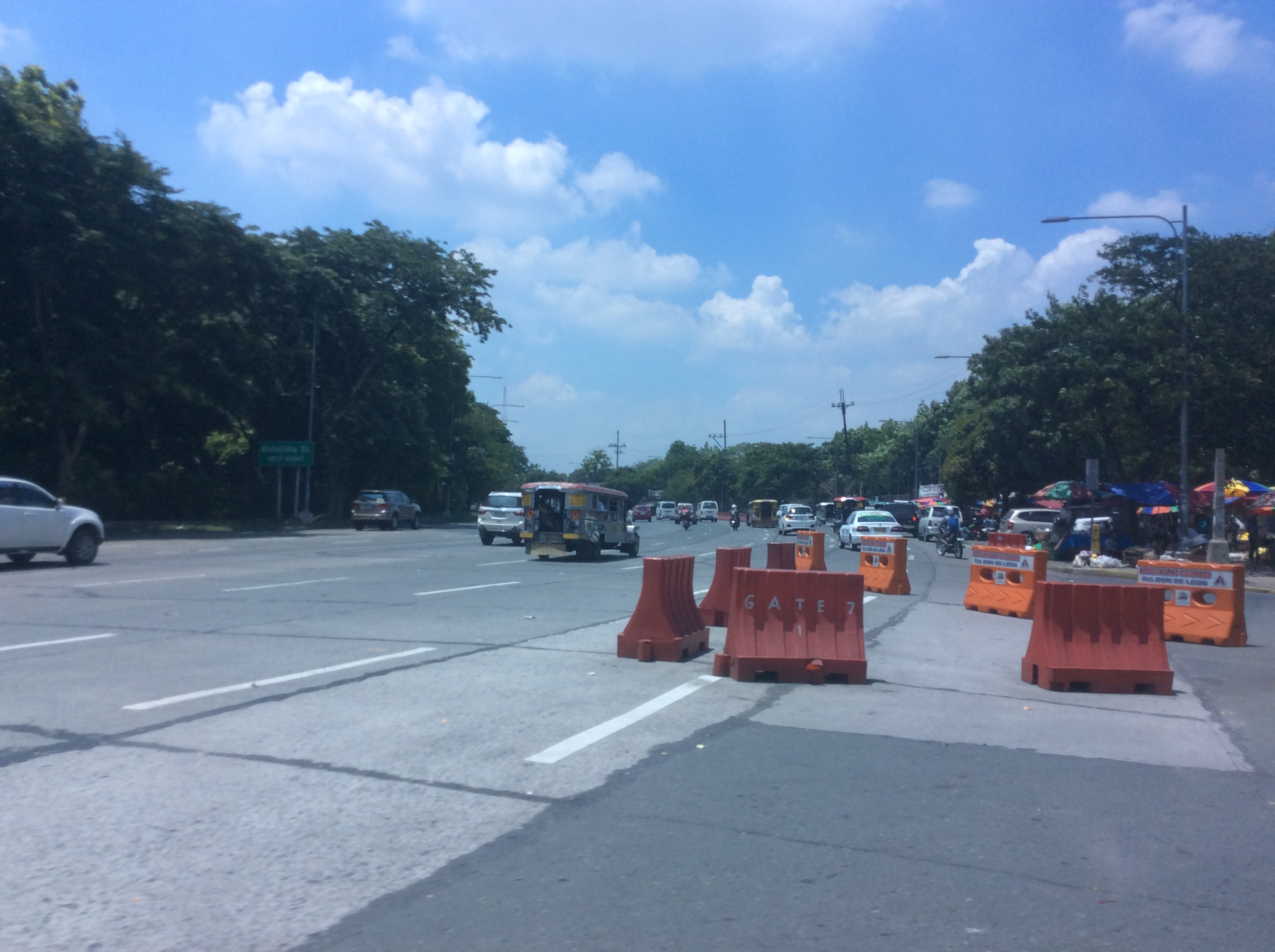 The Elliptical Road in Quezon City, Philippines. East Avenue junction.